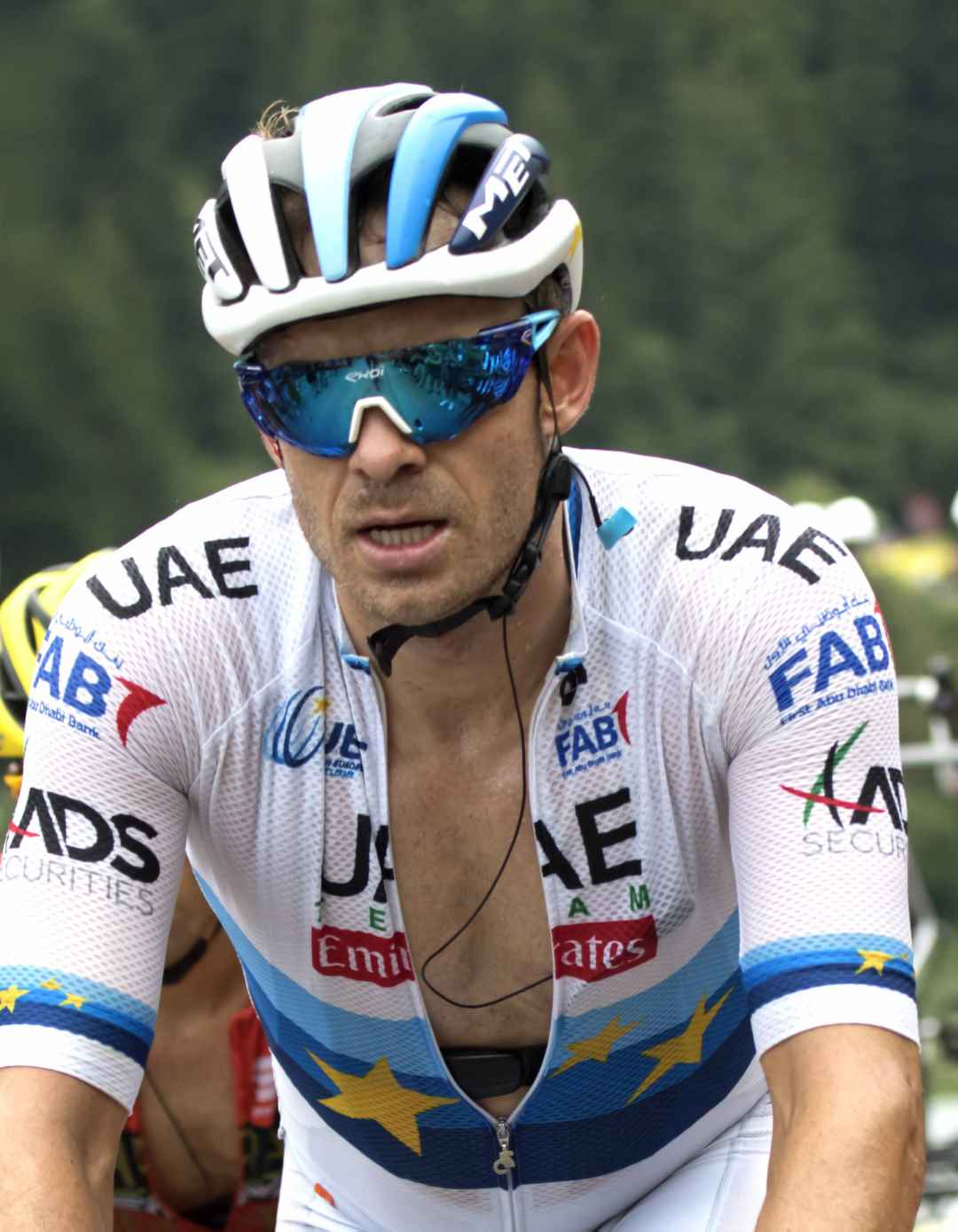 2018 Tour de France